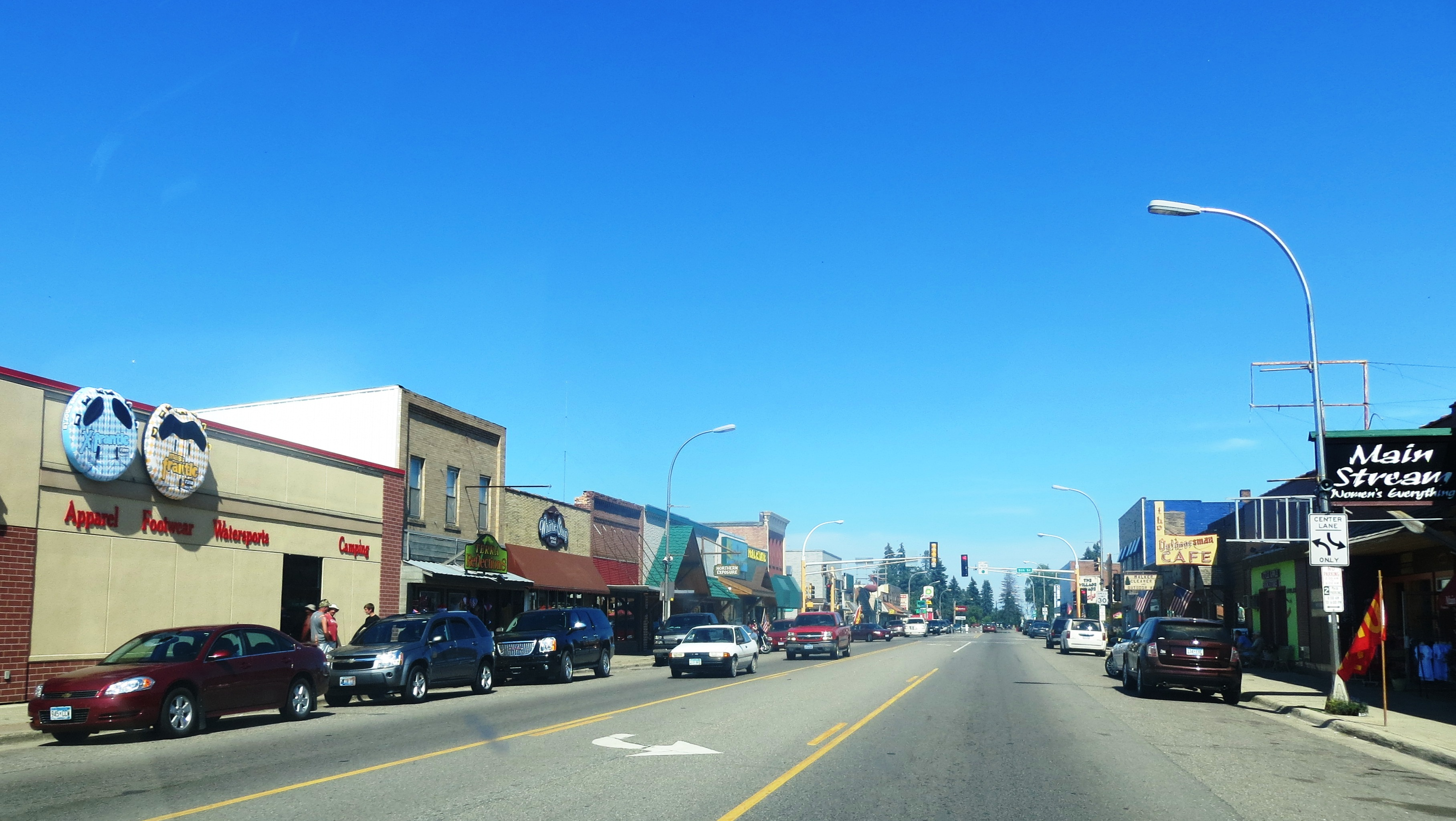 Cass county in Minnesota, around Leech Lake area.